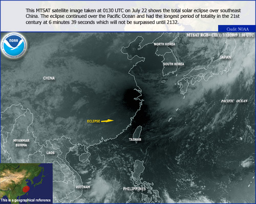 MTSAT satellite image of 22 July 2009 total solar eclipse over southeast China.